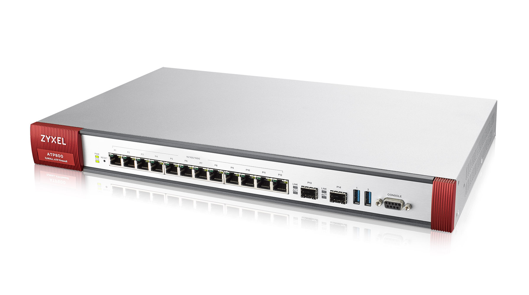 Firewall